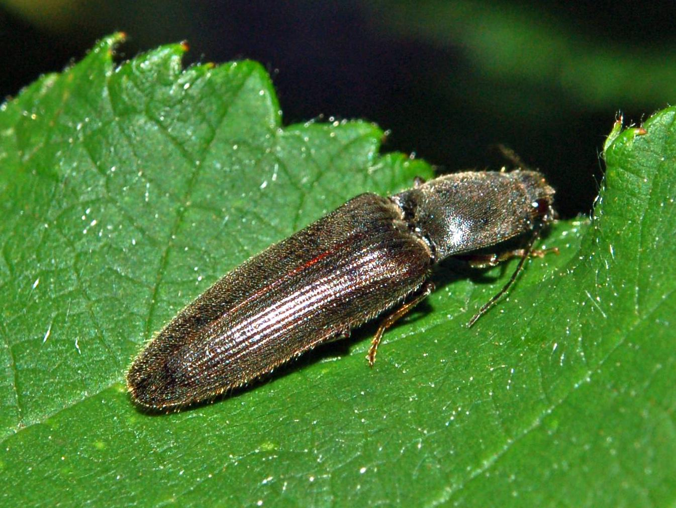 Elateridae - "Athous haemorrhoidalis" species. Val Noci, Genova, Italy